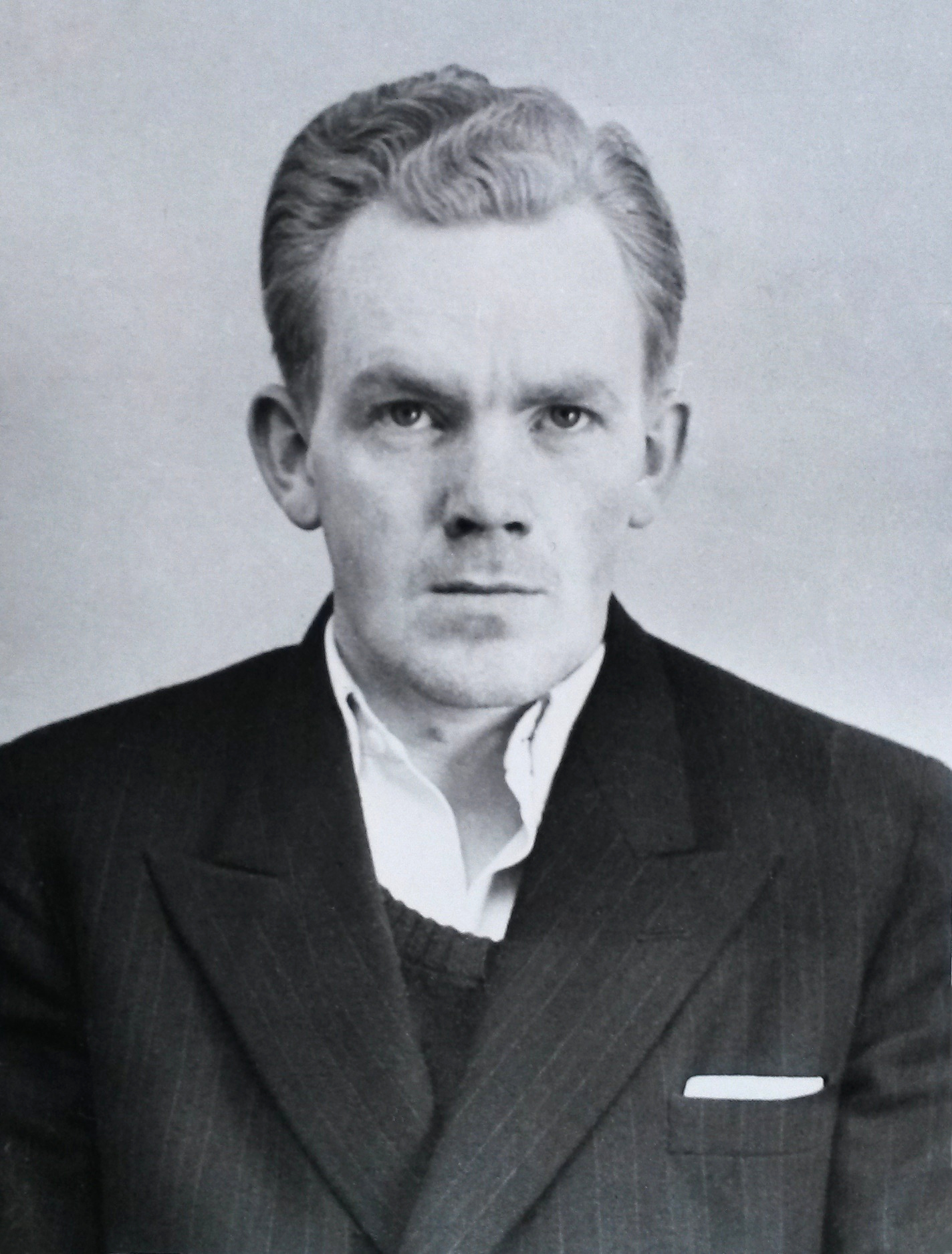 Kaj Henning Bothildsen Nielsen, 1945